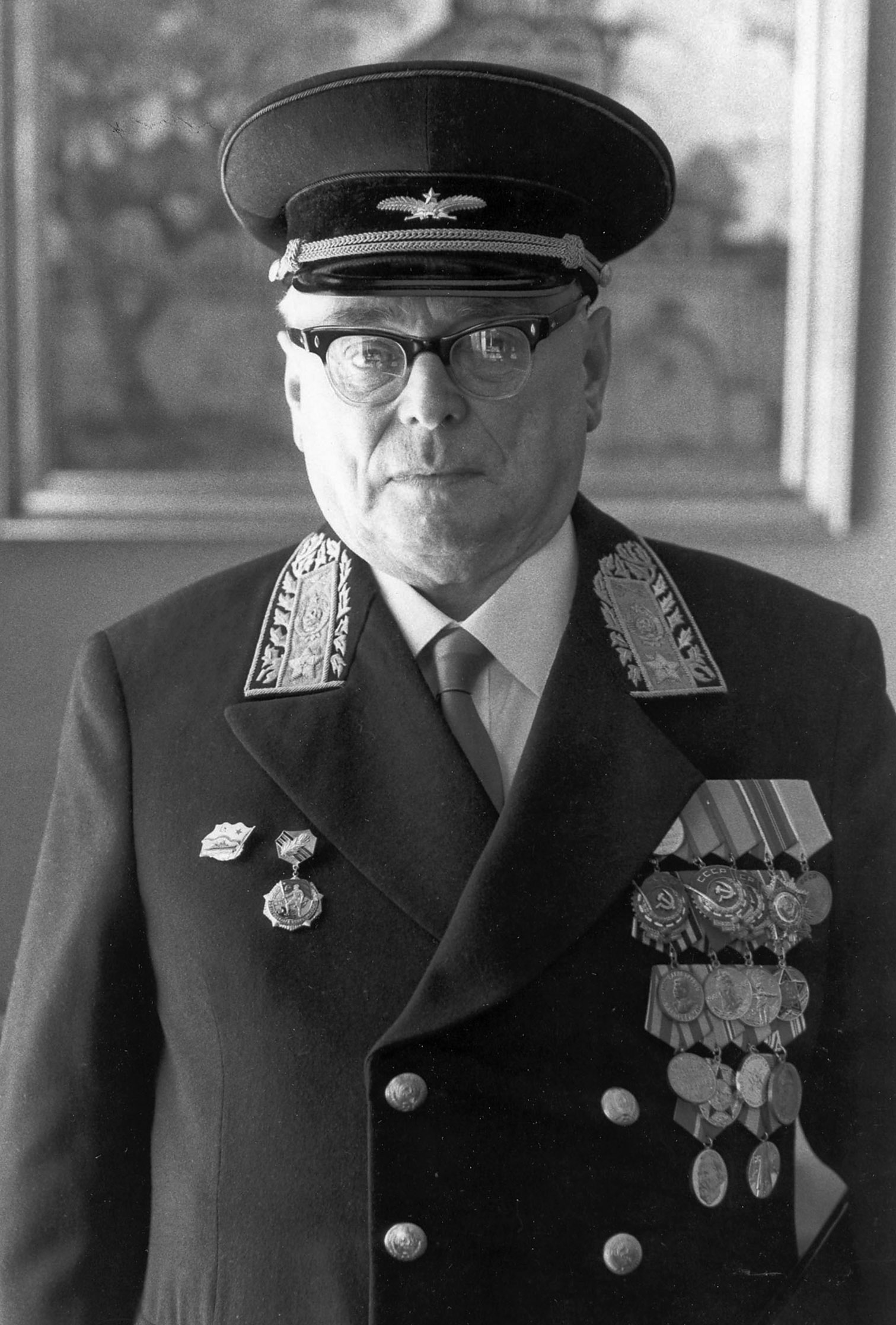 Российский дипломат Лев Исаакович Менделевич в мундире Чрезвычайного и Полномочного Посла СССР